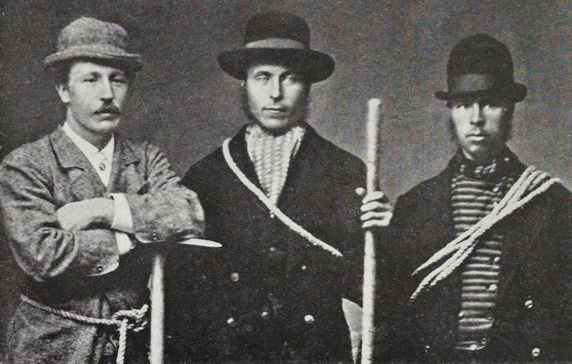 Mountaineers in 1881. From left: Carl Hall (1848–1908) of Denmark, Erik Norahagen (1847–1921) and Mathias Soggemoen (1847–1929) of Rauma, Norway.